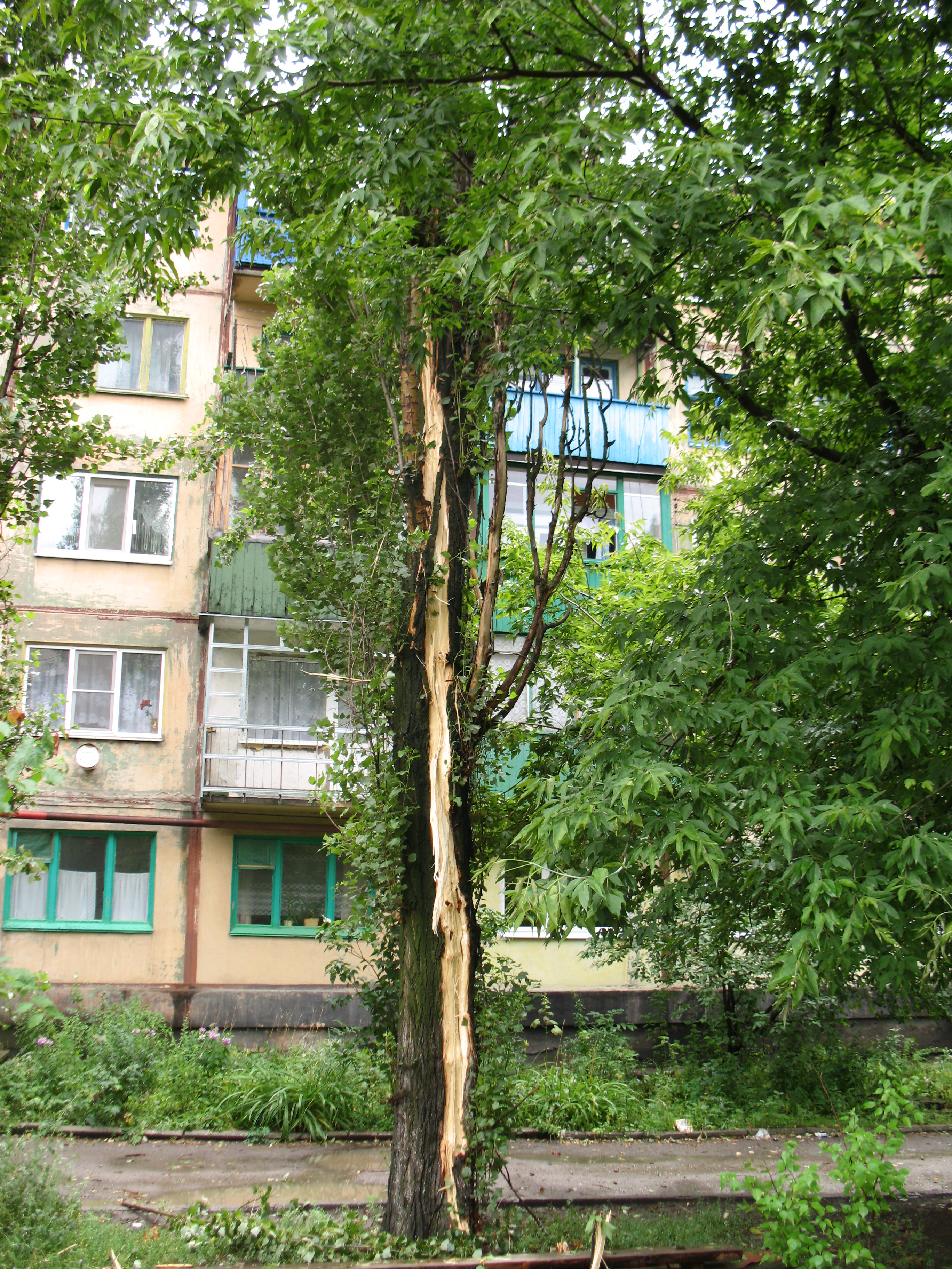 Lightning damage to tree in Makeevka Ukraine 2008